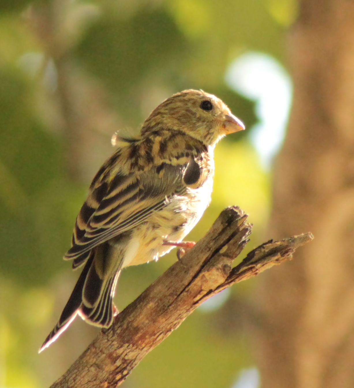 A female European Serin (Serinus serinus) in Madrid (Spain).